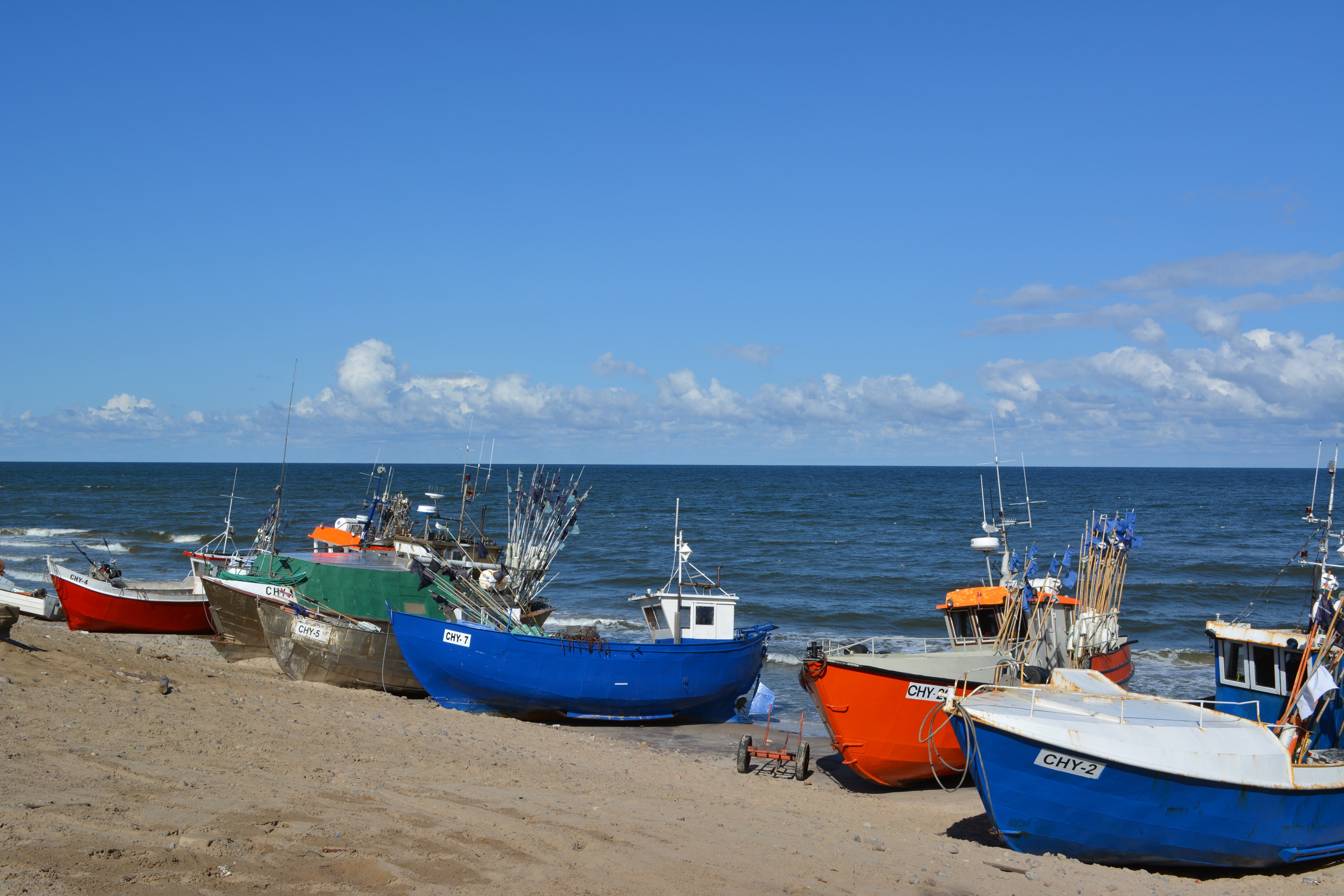 Boats in the fishing port of Chlopy, municipality Mielno, in the district of Koszalin